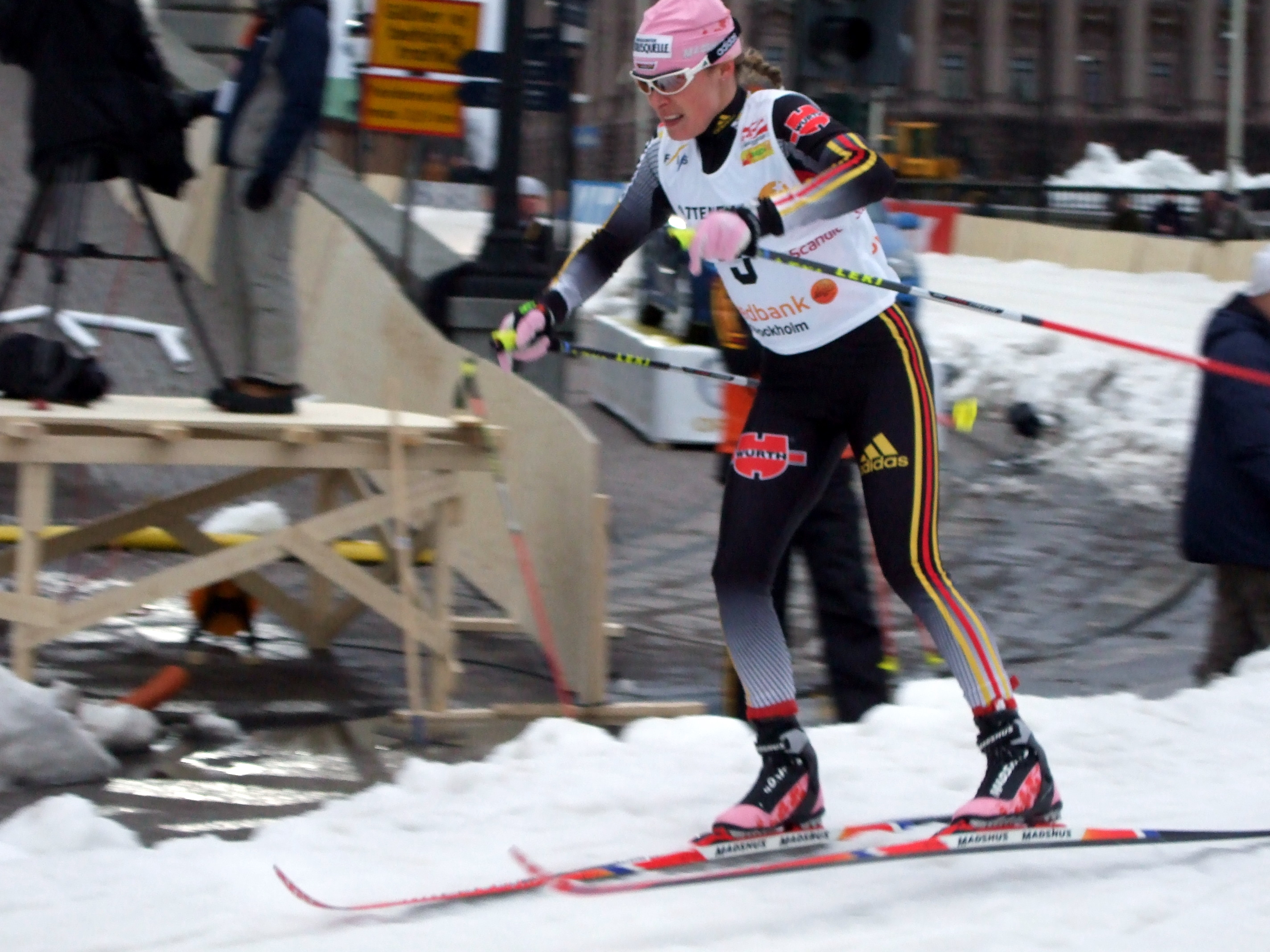 Evi Sachenbacher Stehle at the Royal Castle World Cup sprint in Stockholm, Sweden